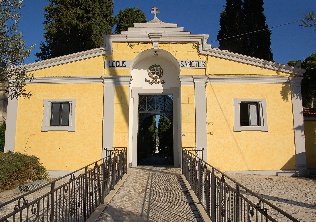 Montesilvano